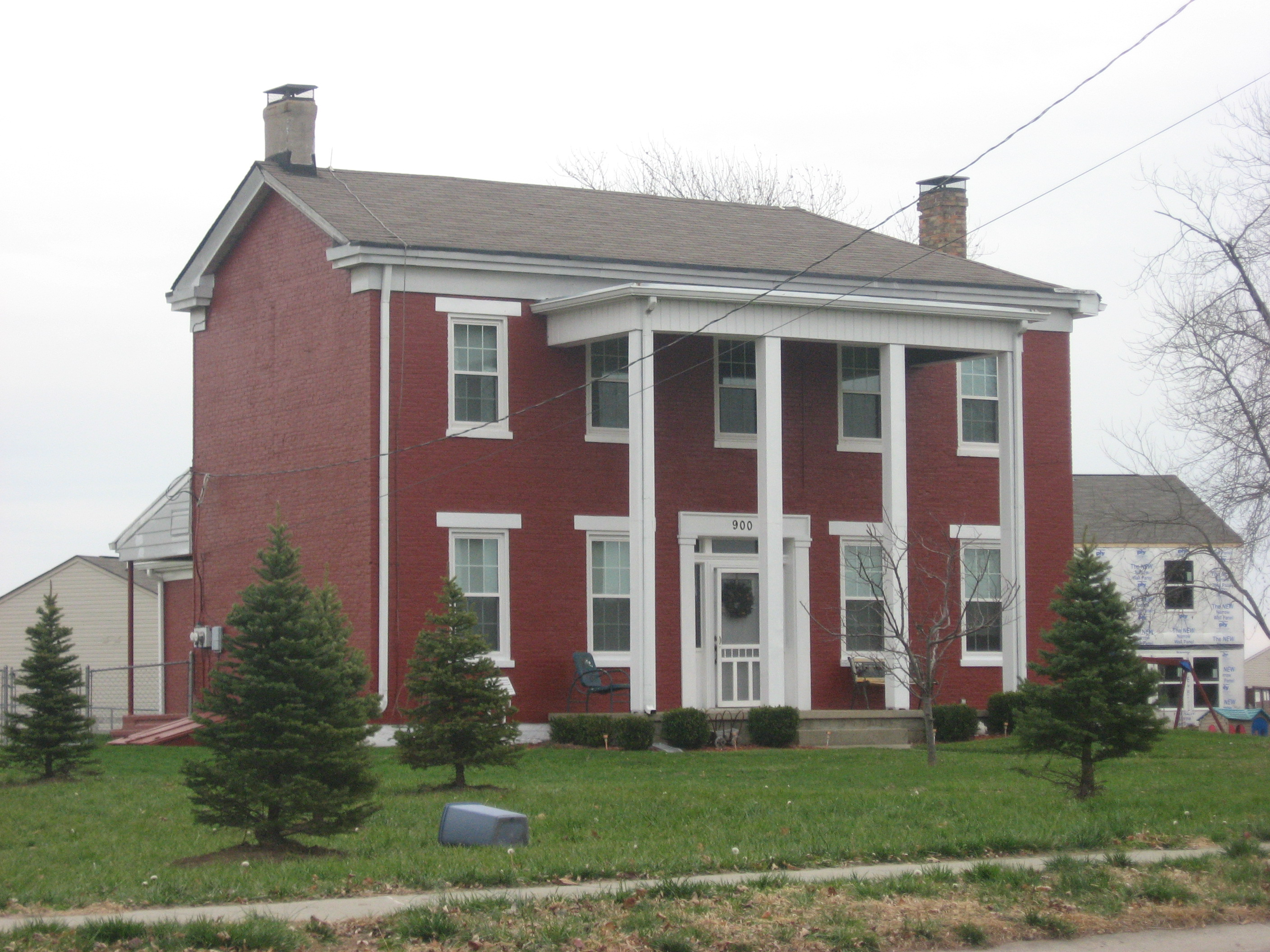 Front and northern side of the Christian Ehresman Farmhouse, located at 900 Woodsdale Road in Trenton, Ohio, United States. Built in 1867, it is listed on the National Register of Historic Places.